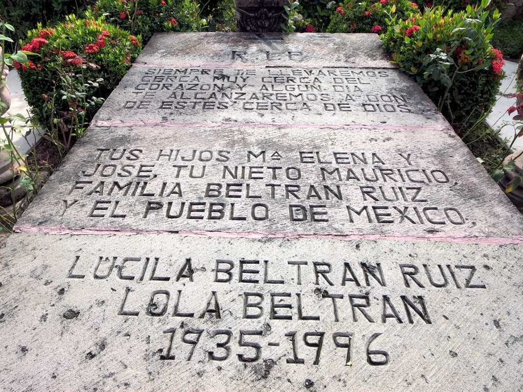 Grave of Lola Beltrán, known as "la Reina de la Canción Ranchera", she is buried outside the Parroquia de Nuestra Señora del Rosario in El Rosario, Sinaloa